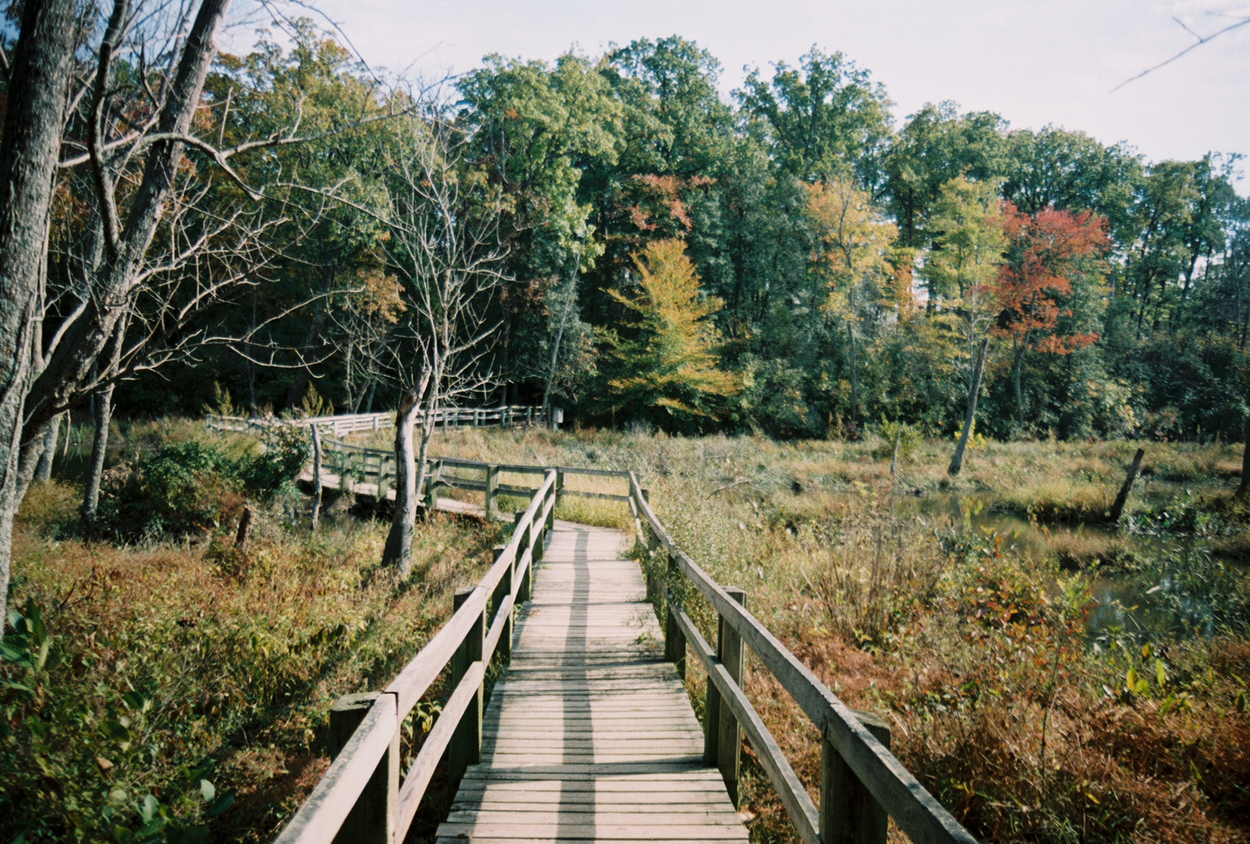 First flush of autumn. ksu